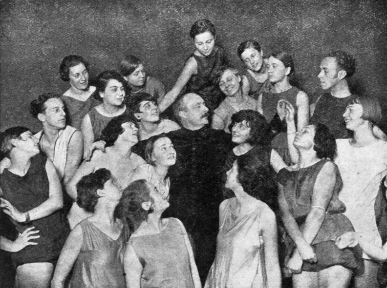 Rudolf von Laban (1879-1958) in the centre of his pupils.